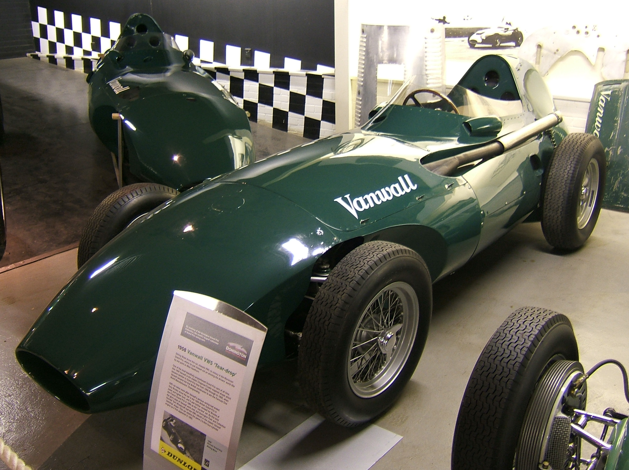 Vanwall VW5, Stirling Moss's British Grand Prix-winning car, wearing a standard 1958 body. Spare bodywork on a trestle behind. In the Donington Grand Prix Collection museum, Leics., UK.